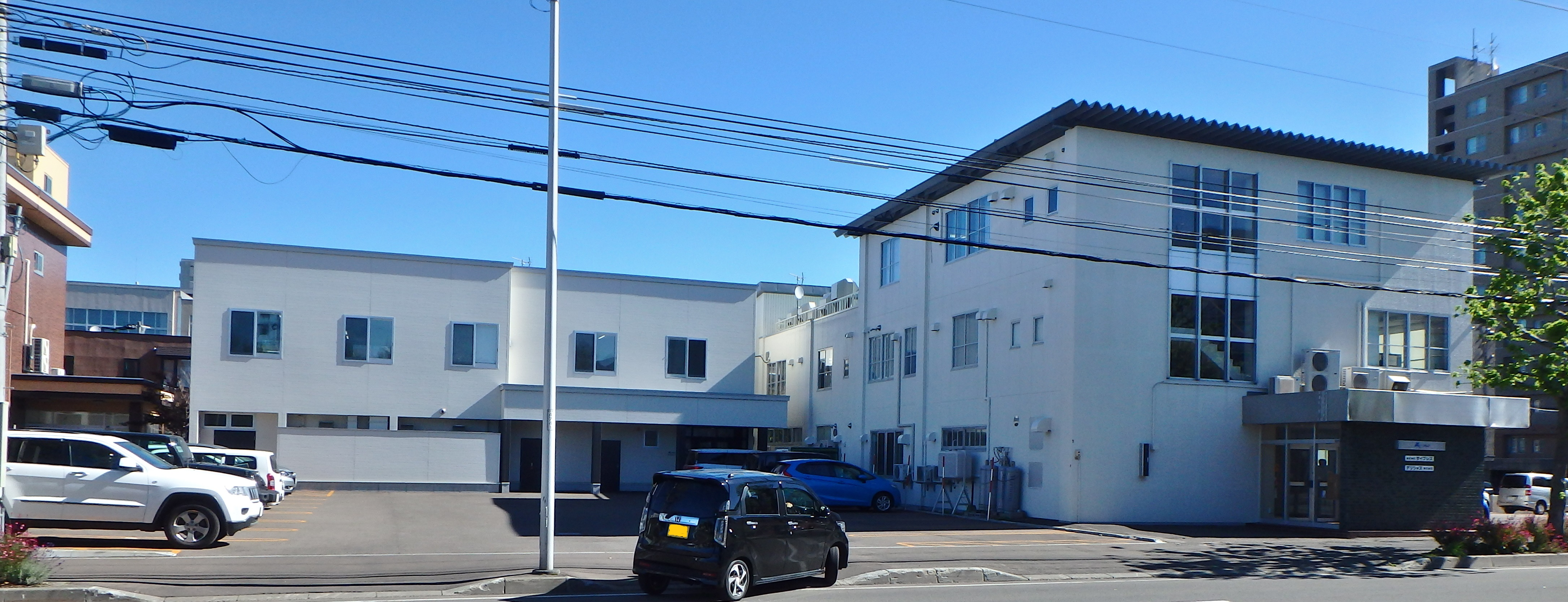 Headquarters of Aleph-inc., Hokkaido prefecture,Japan